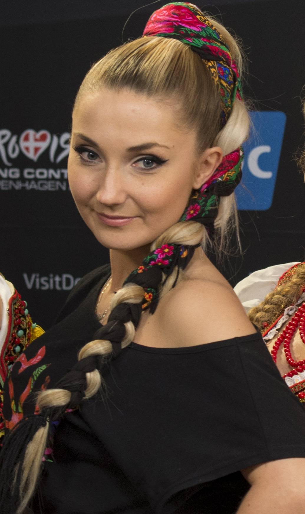 Donatan & Cleo during a Meet & Greet at the Eurovision Song Contest 2014.